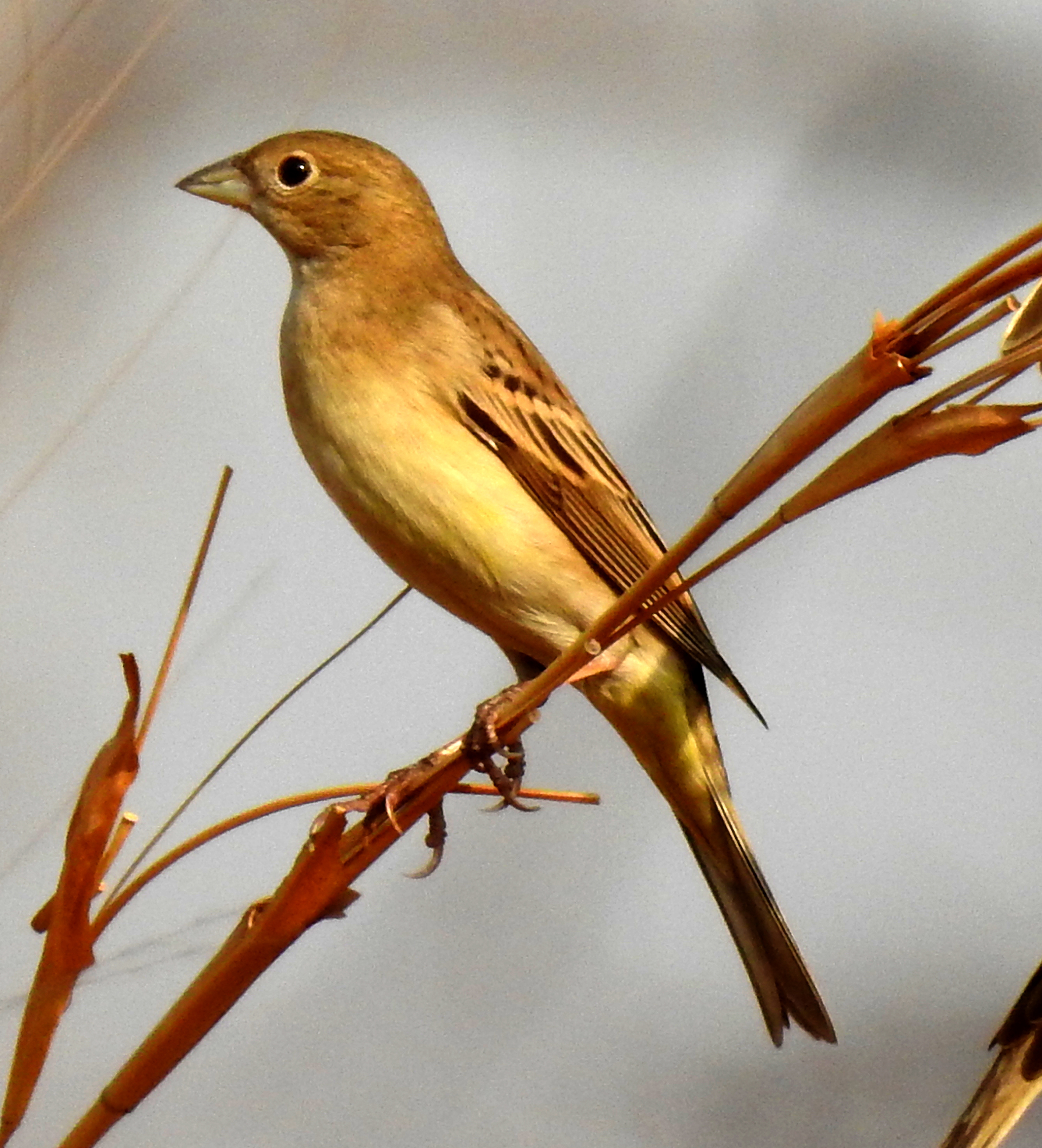 Black-headed Bunting Emberiza melanocephala male. Photographed near Dombivli, dist. Thane, Maharashtra, India.